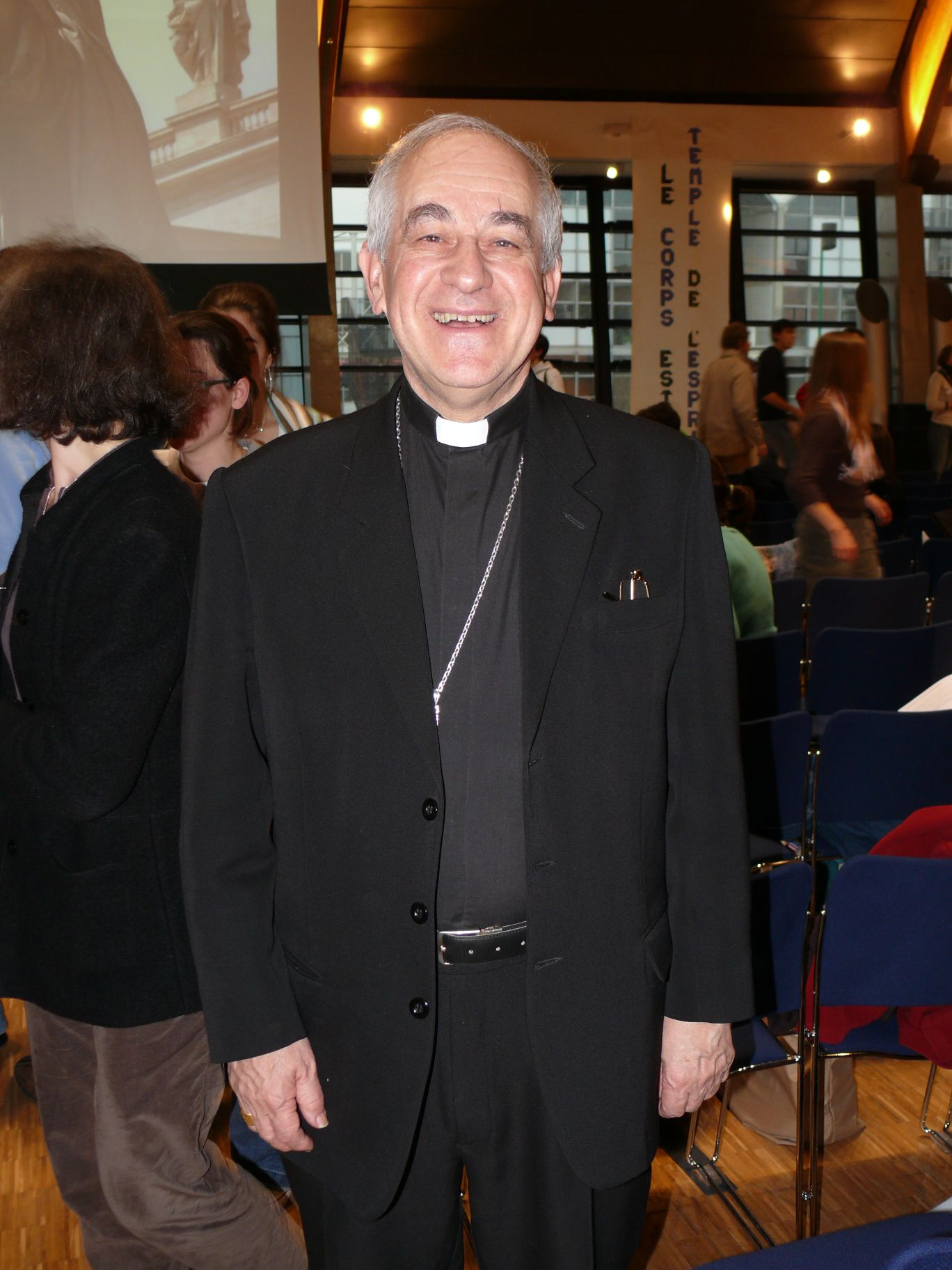 Jean-Yves Riocreux, bishop of Pontoise (Val-d'Oise, France), at the National Meeting of Chrétiens en Grande École (Christians in High School) in Pontoise (Val-d'Oise, France) in February 2009.